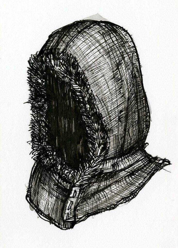 The description of the concept in this drawing is: Soft coverings for the head and neck, and sometimes extending to the shoulders, either separate or attached to a garment. (AAT)